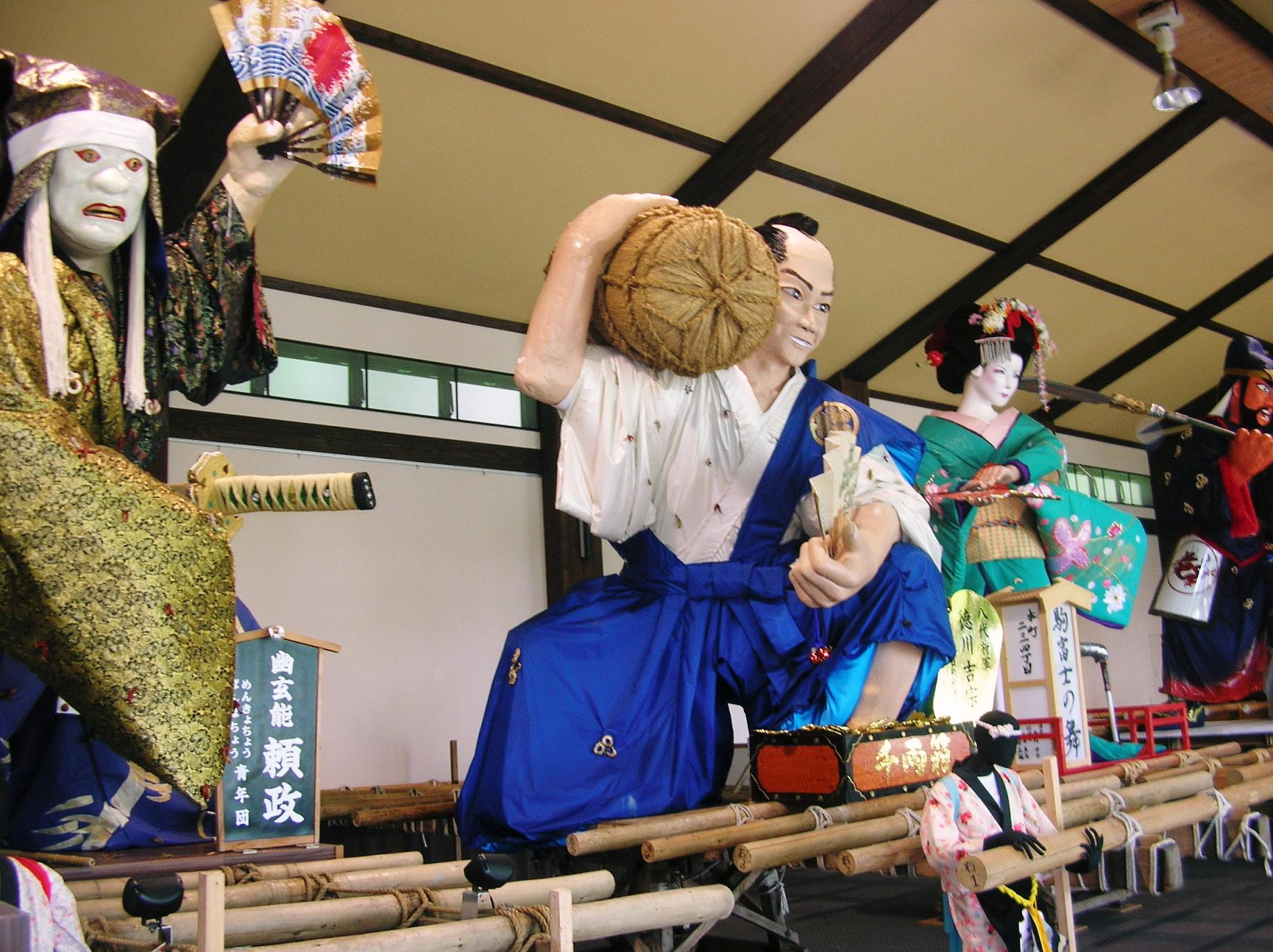 Tukurimon of Hourai Festival in Hakusan City, Ishikawa, Japan